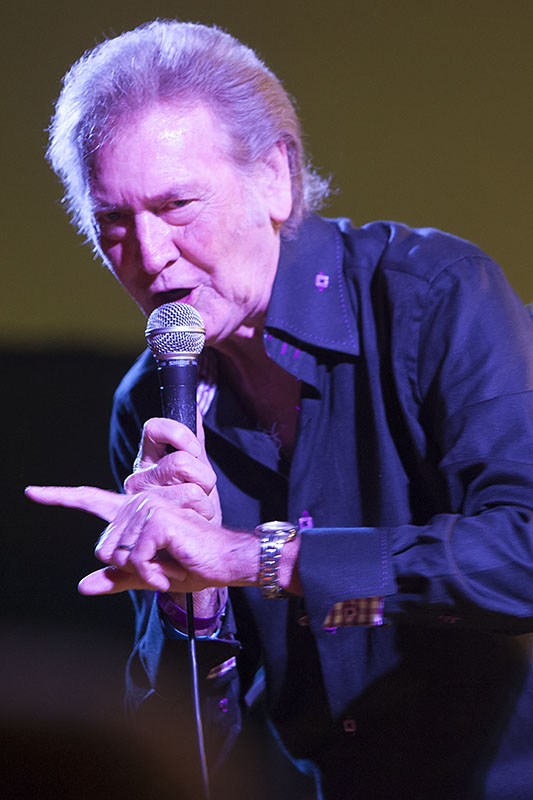 Gene Summers, rockabilly singer and guitarist, on stage.